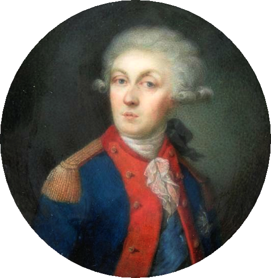 Franciszek Ksawery Woyna